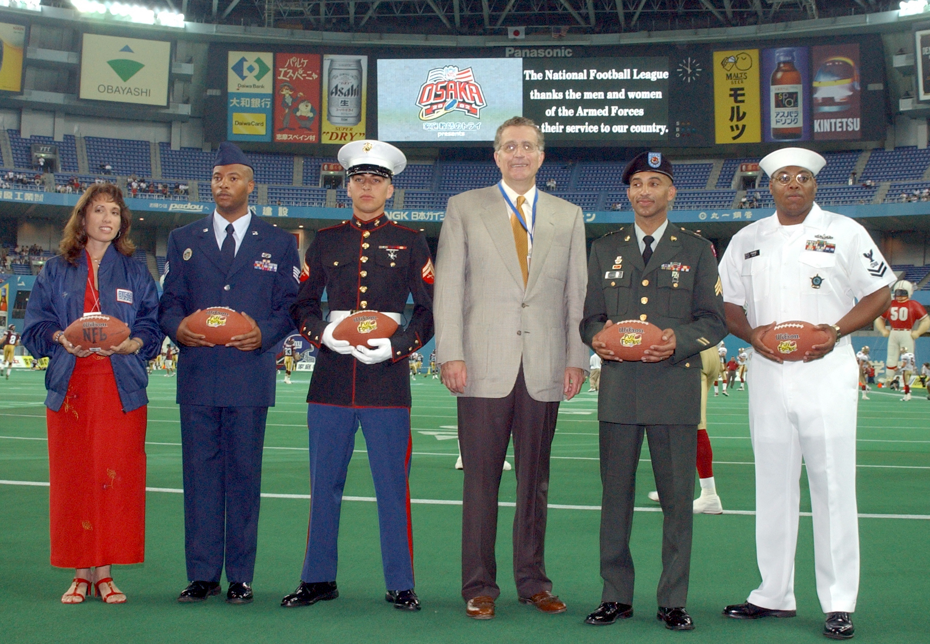 From left to right, Kathy Hayes of the United Services Organization (USO), Staff Sgt. Quran A. Johnson (U.S. Air Force), Cpl. Jose Zamudid (U.S. Marine Corps), Sgt. Quintin D. Custis (U.S. Army), and Postal Clerk 2nd Class Tracey D. Fudge (U.S. Navy) pose with NFL commissioner Paul Tagliabue after accepting a flag football donation for U.S. military troops in Japan. The presentation ceremony was conducted prior to the start of the 2002 American Bowl between the San Francisco 49ers and the Washington Redskins.